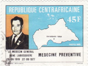 Central African stamp from 1985.